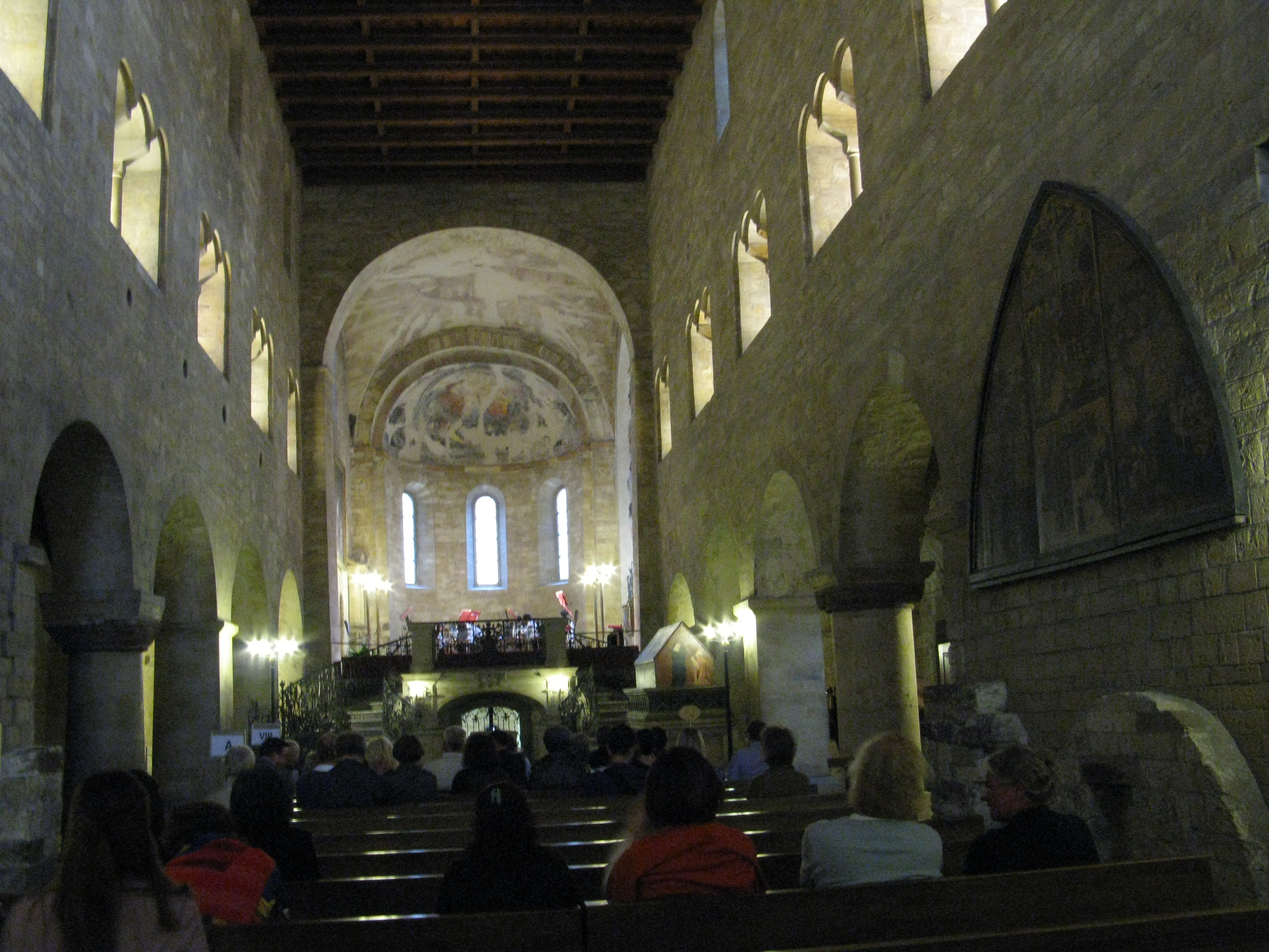 Praha Castle: St. George's Basilica inside during a concert on 12/09/2009